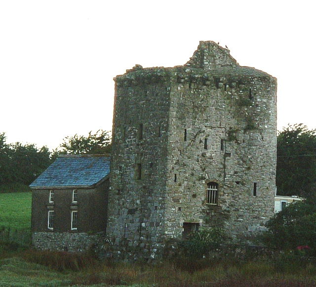 Ancient Tower, Angle